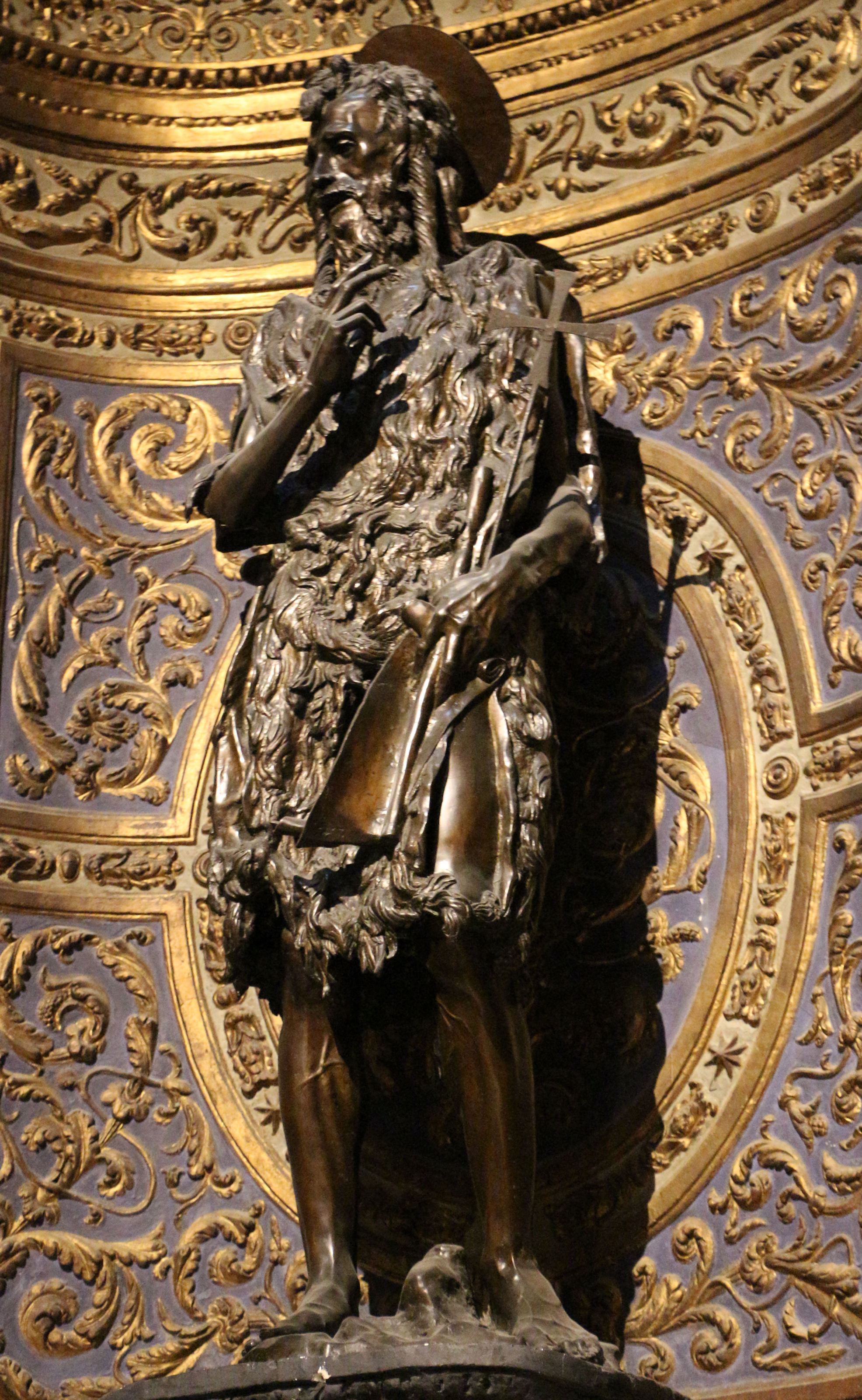 Cathedral (Siena) - Cappella di San Giovanni Battista